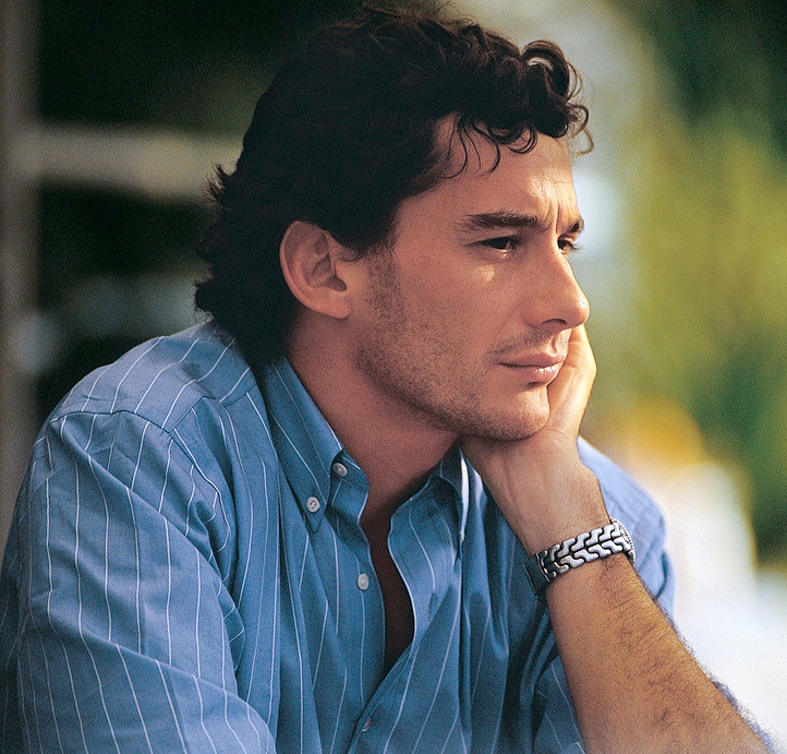 Ayrton Senna in a relaxed pose